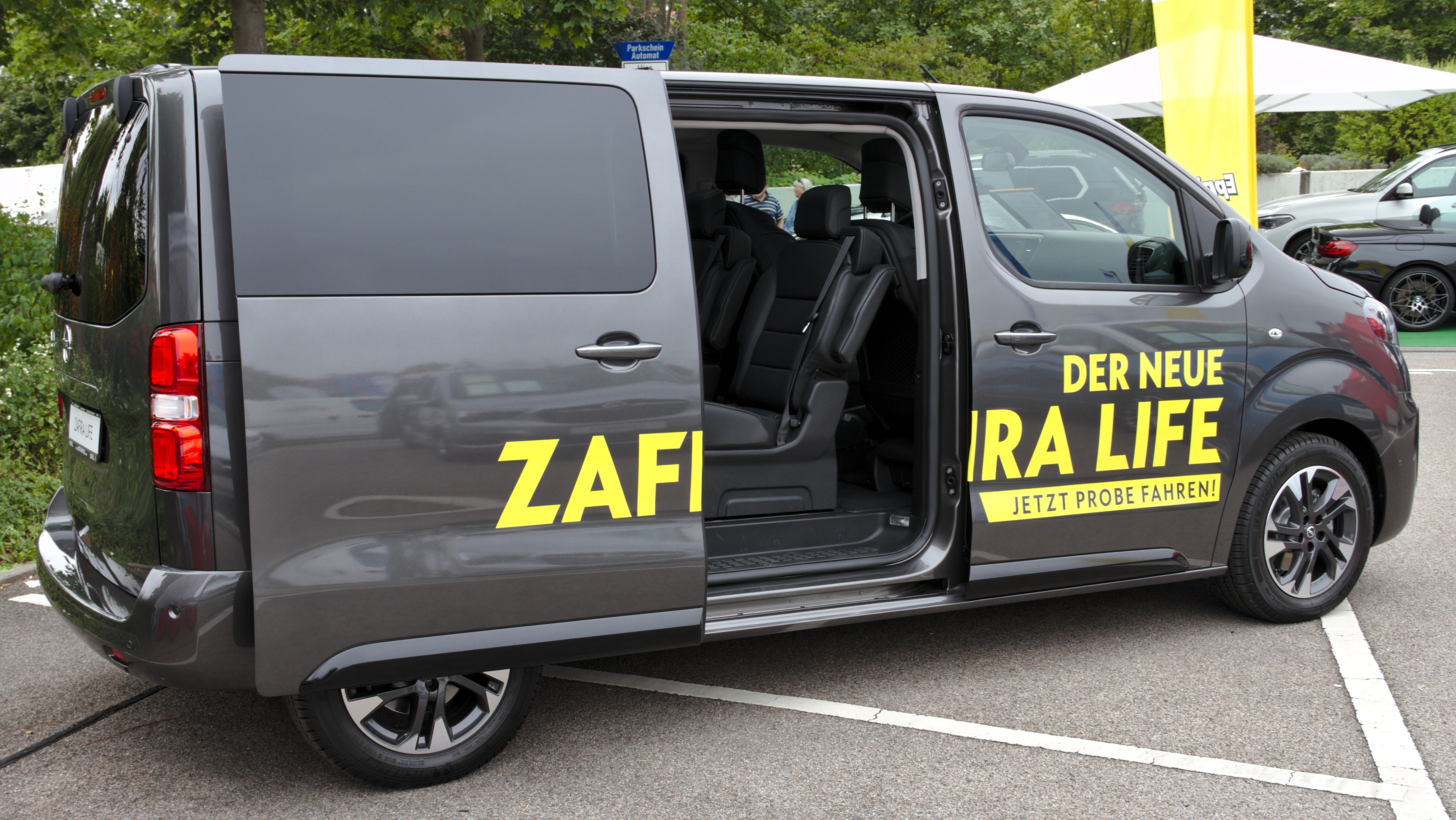 Opel Zafira Life M at Leonberger Autoschau 2019